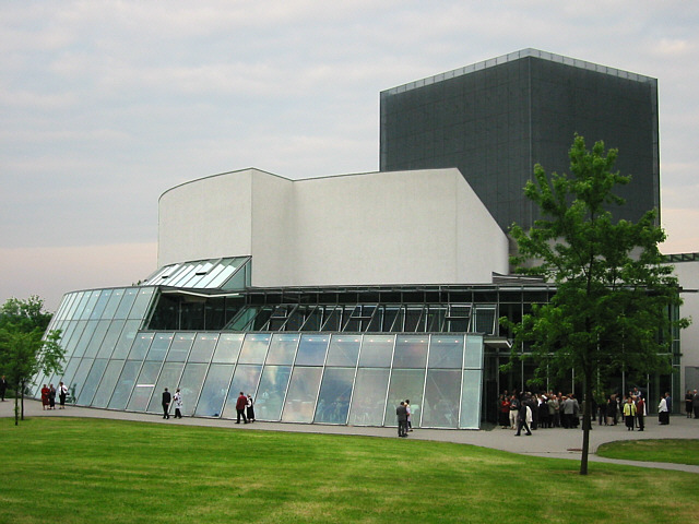 Hof, Bavaria, Germany: Theater